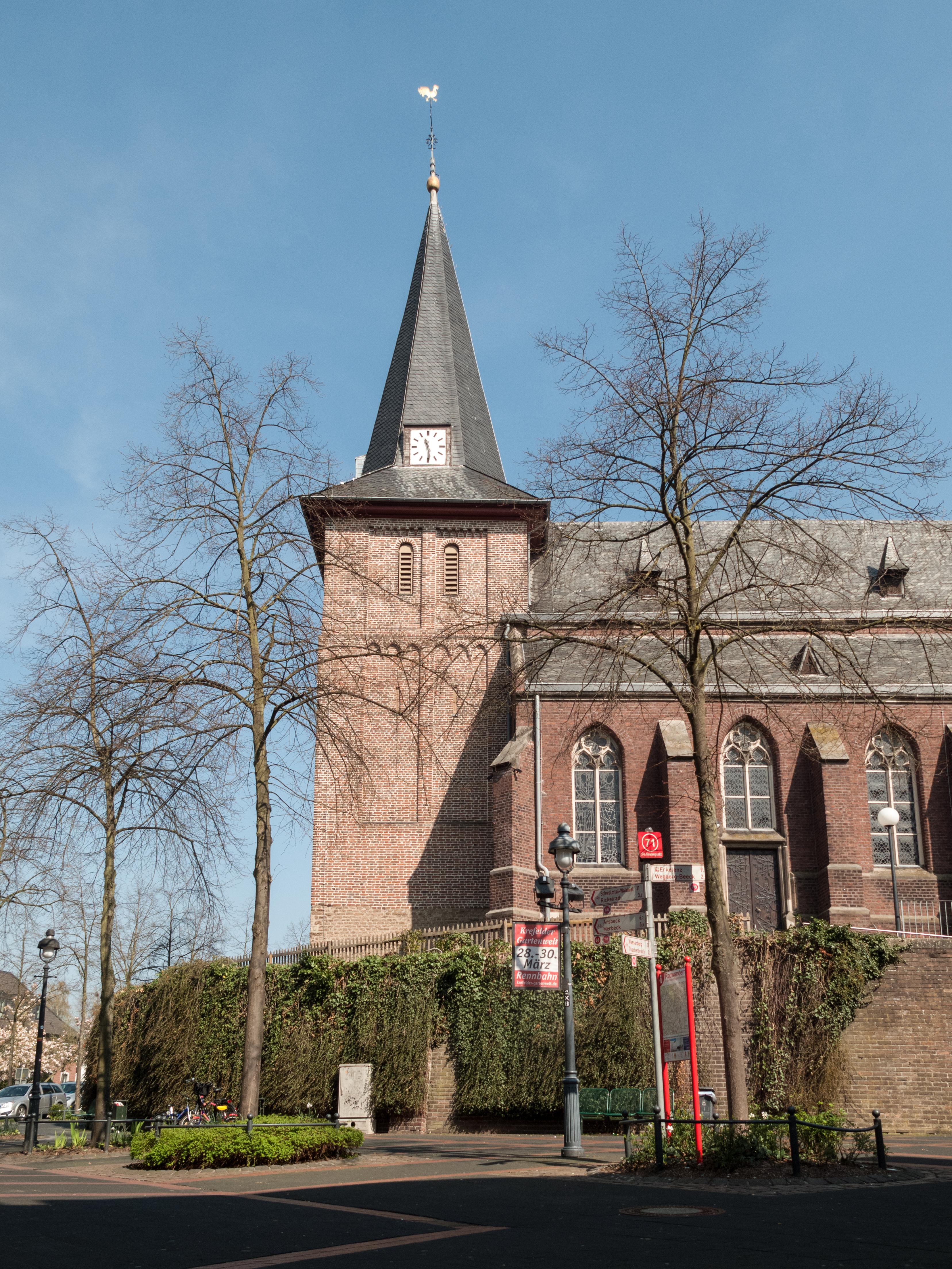 Wegberg, church: die Pfarrkriche Sankt Peter und Paul This is a photograph of an architectural monument.